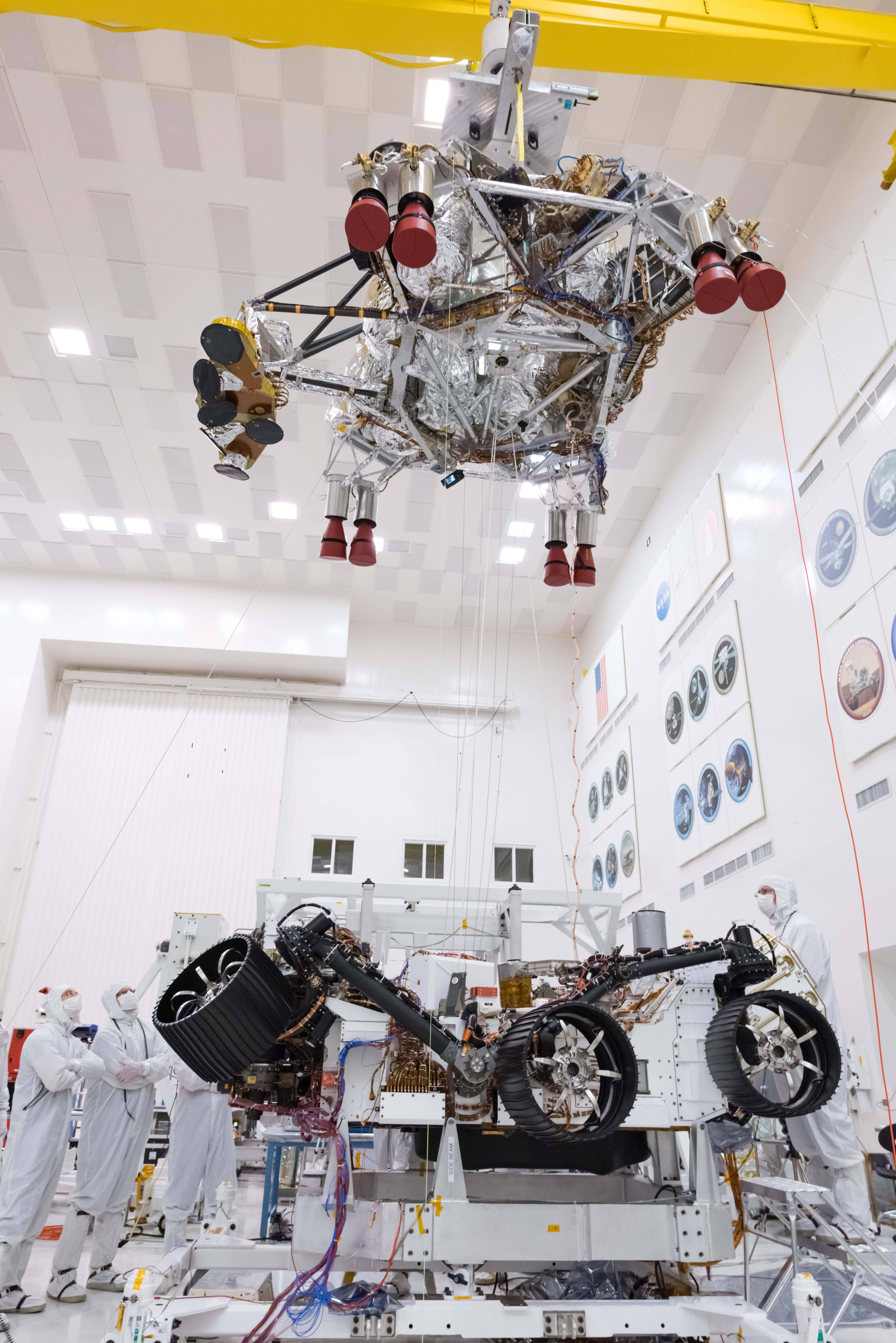 PIA23466: NASA Mars 2020 Rover Separation Test In this picture from Sept. 28, 2019, engineers and technicians working on the Mars 2020 spacecraft at NASA's Jet Propulsion Laboratory in Pasadena, California, look on as a crane lifts the rocket-powered descent stage away from the rover after a test. JPL is building and will manage operations of the Mars 2020 rover for the NASA Science Mission Directorate at the agency's headquarters in Washington. For more information about the mission, go to